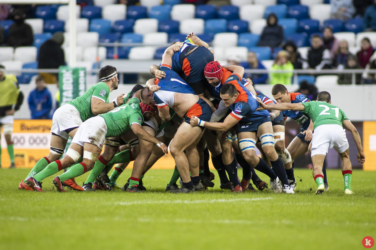 2019-2020 REIC Men XV: Russia vs. Portugal (2020-02-22)